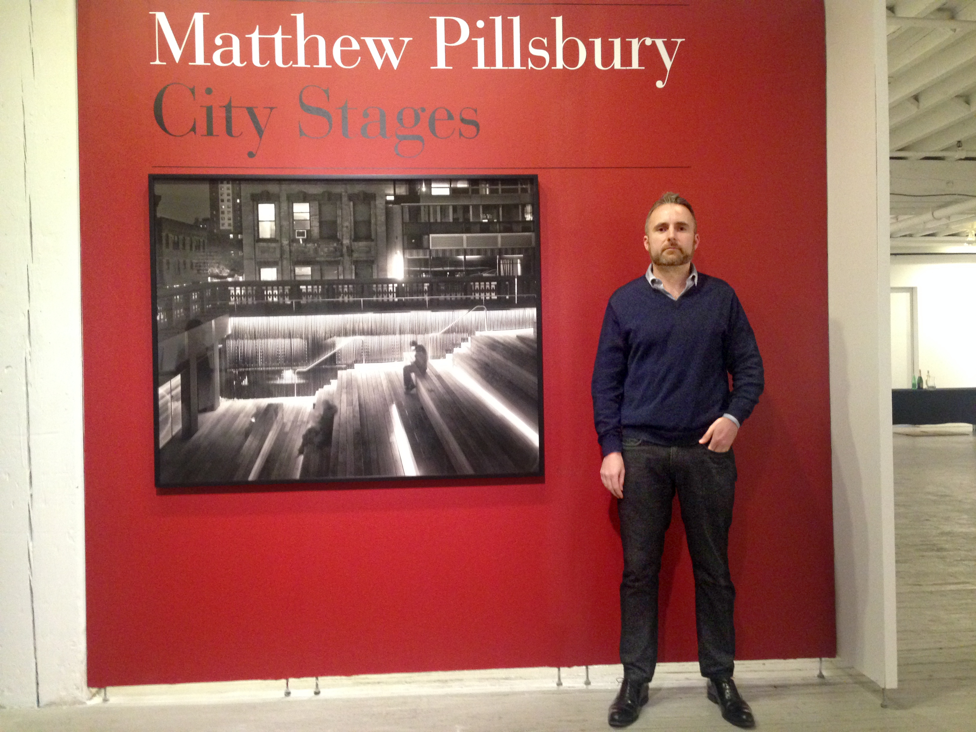 Photographer Matthew Pillsbury at the opening of the City Stages exhibition at Aperture Foundation Gallery in New York City on February 19, 2014